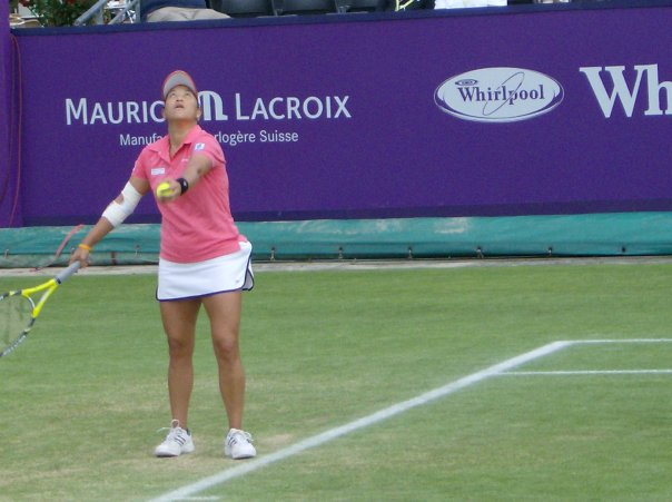 Tamarine Tanasugarn at the Ordina Open 2009